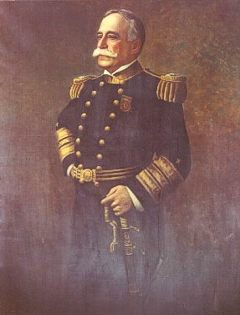 George Dewey